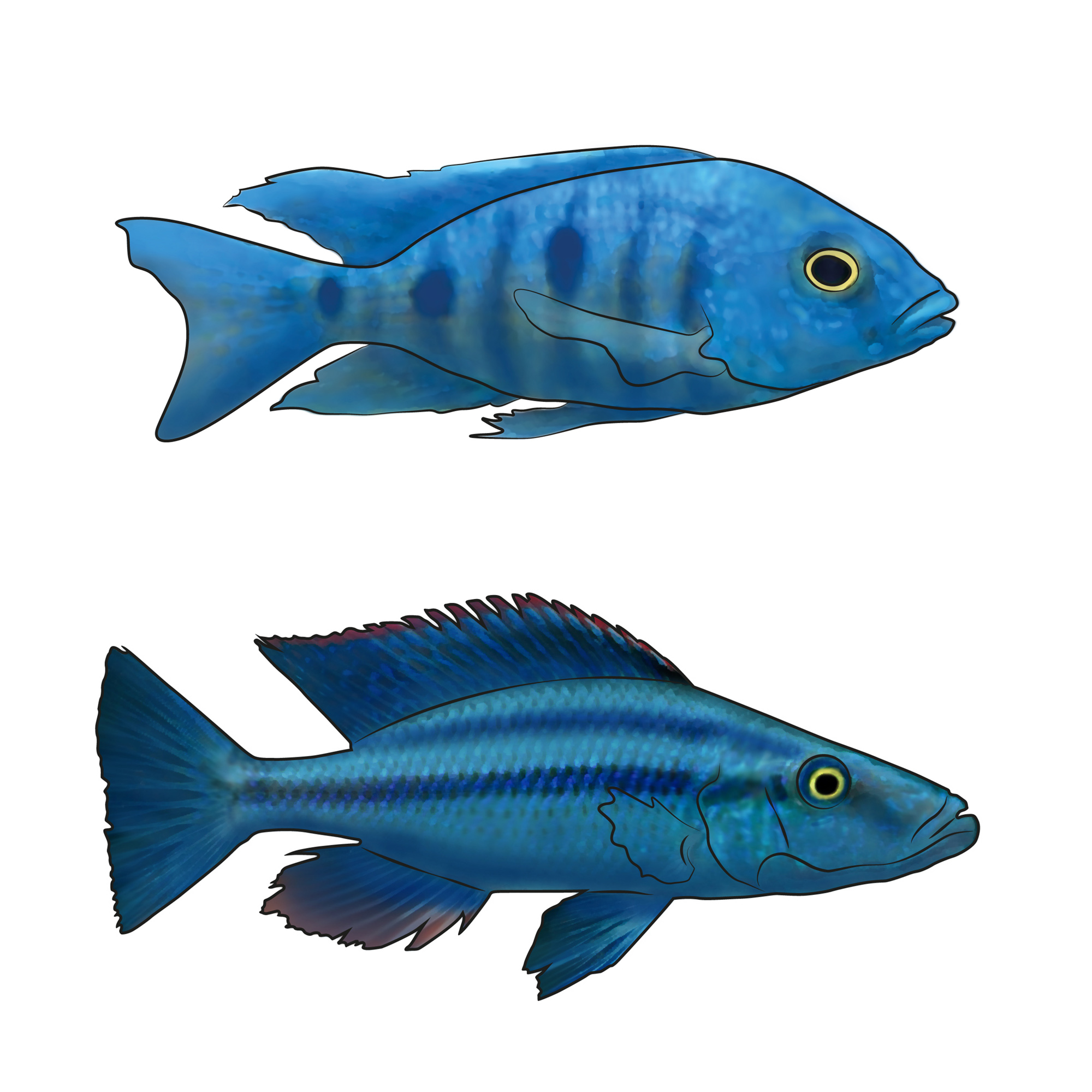 Illustration détaillée des motifs de pigmentation.